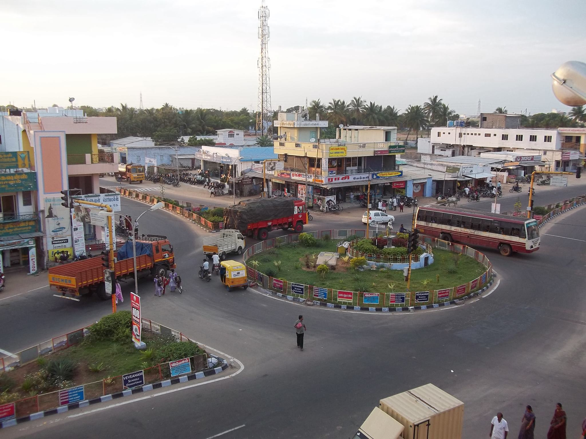 Amaravathi statue at Dharapuram,Tamilnadu